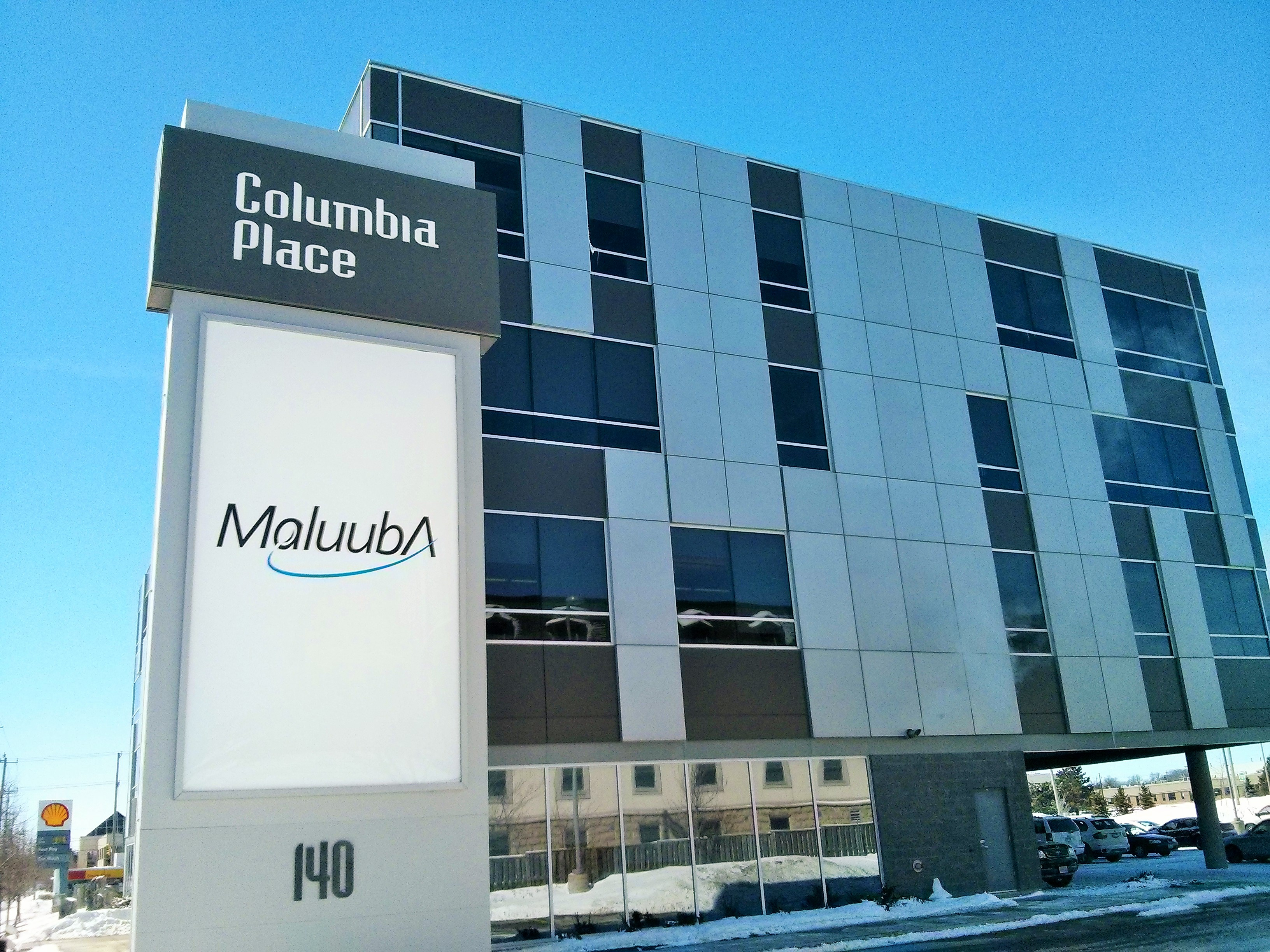 Maluuba sign by the Waterloo office. March 13 2014